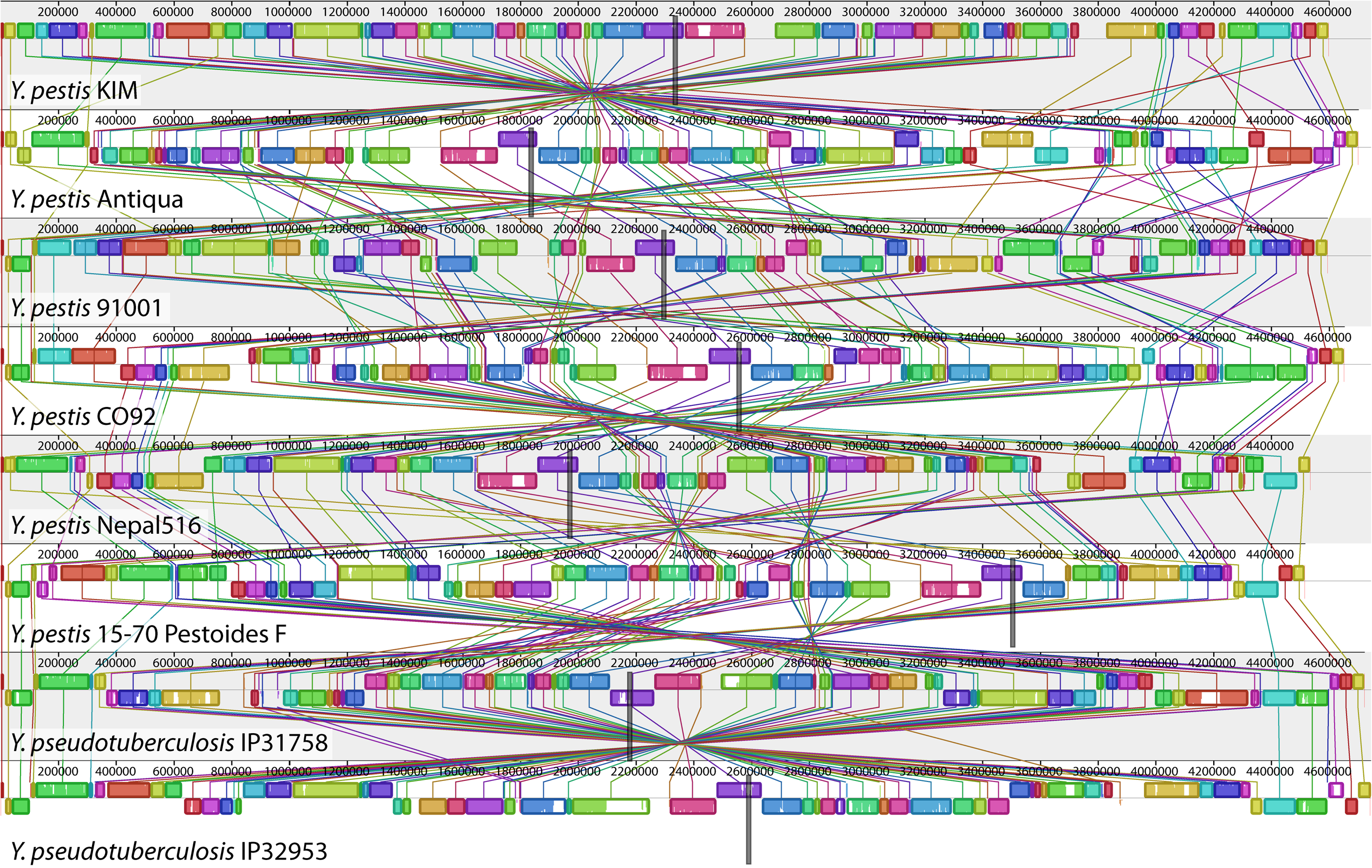 Whole genome alignment of eight Yersinia genomes using Mauve reveals 78 locally collinear blocks conserved among all eight taxa. Each chromosome has been laid out horizontally and homologous blocks in each genome are shown as identically colored regions linked across genomes. Regions that are inverted relative to Y. pestis KIM are shifted below a genome's center axis. The origin of replication in each genome is approximately at coordinate 1 and the terminus dif sites are approximately midway through each genome, as marked by grey vertical bars. The termini were identified by sequence comparison with Y. pestis KIM, where they were characterized by extensive sequence analysis. Figure generated by Mauve, free/open-source software available from